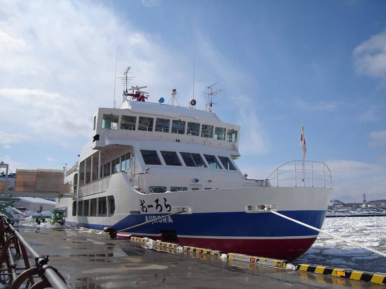 Saihyohsen aurora IMO number: 8920050 Callsign: JD2657 GRT 491 tons DWT 280 tons Built 1990